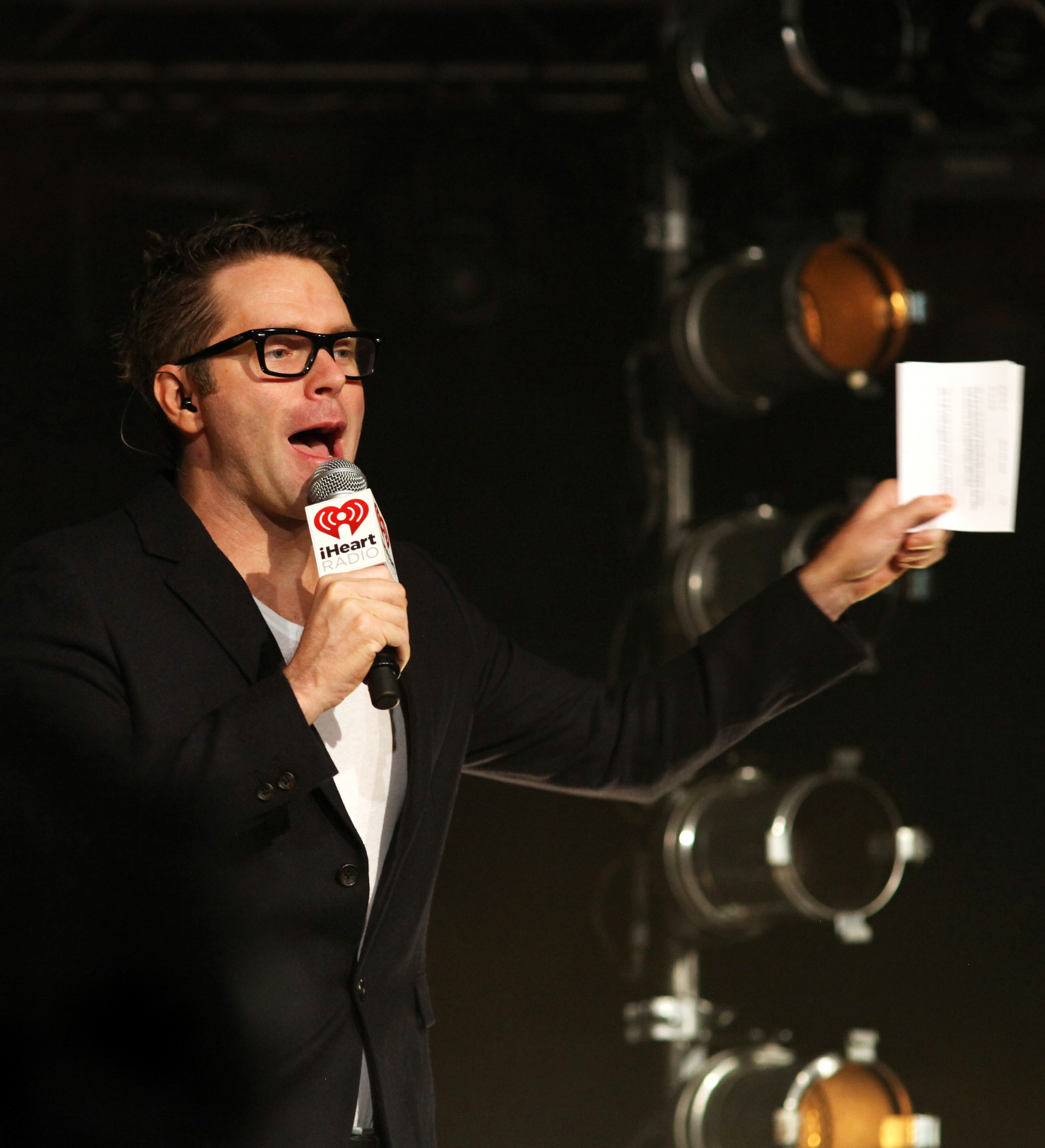 IMG_1567 Bobby Bones at the iHeartRadio Theater in NYC, for Brad Paisley's album release party.